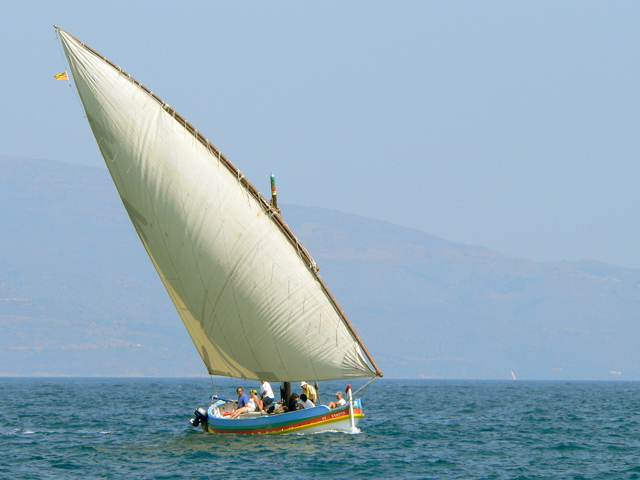 La barca "Yvonne" dalla città di Palavas-les-Flots in Francia. The boat is named "Yvonne"and she is from the French village of Palavas-les-Flots.